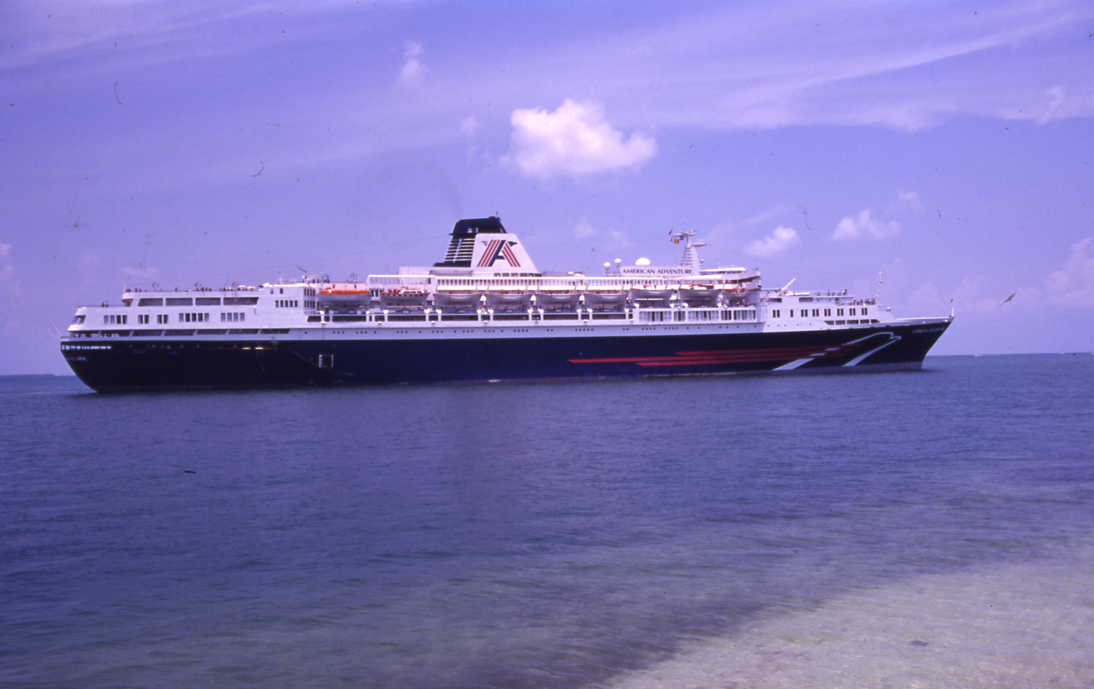 A cruise ship in Key West Harbor. Photo by Ray Blazevic.